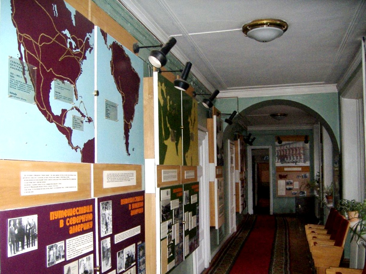 This corridor has maps and photos from Vavilov's collecting expeditions around the world.